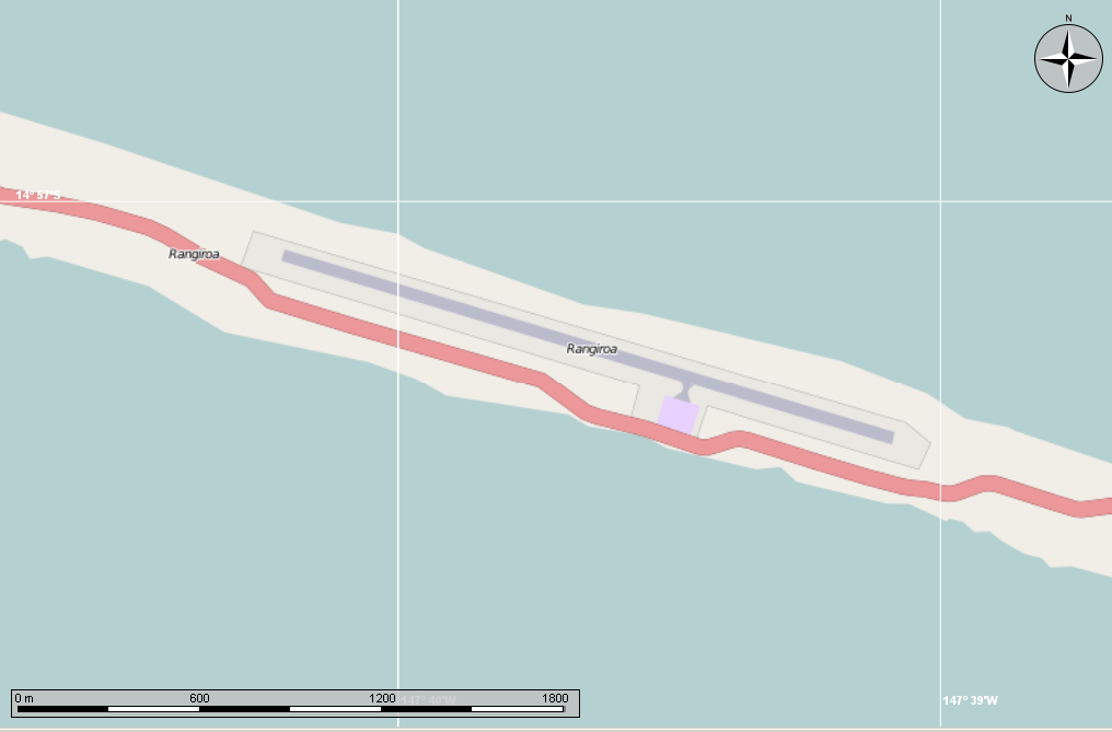 Open Street Map of the Rangiroa Airport in French Polynesia. Made with Marble and GIMP.